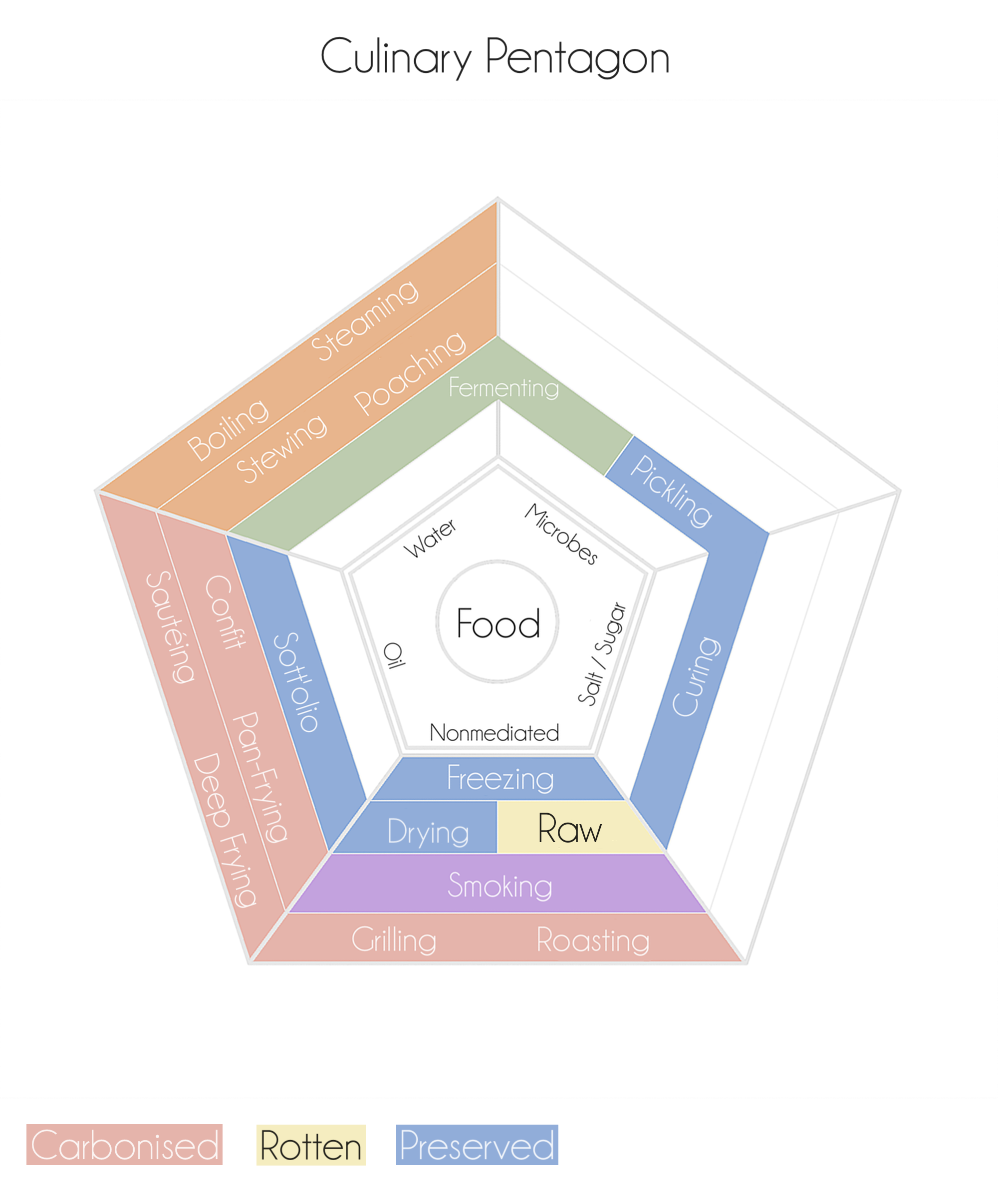 Showing different cooking techniques, the outer rings represent higher temperature whereas the three primary colours suggest the results under extreme conditions of each technique and each of the three secondary colours suggests the two possible results the two primary colours it is made up of represent).